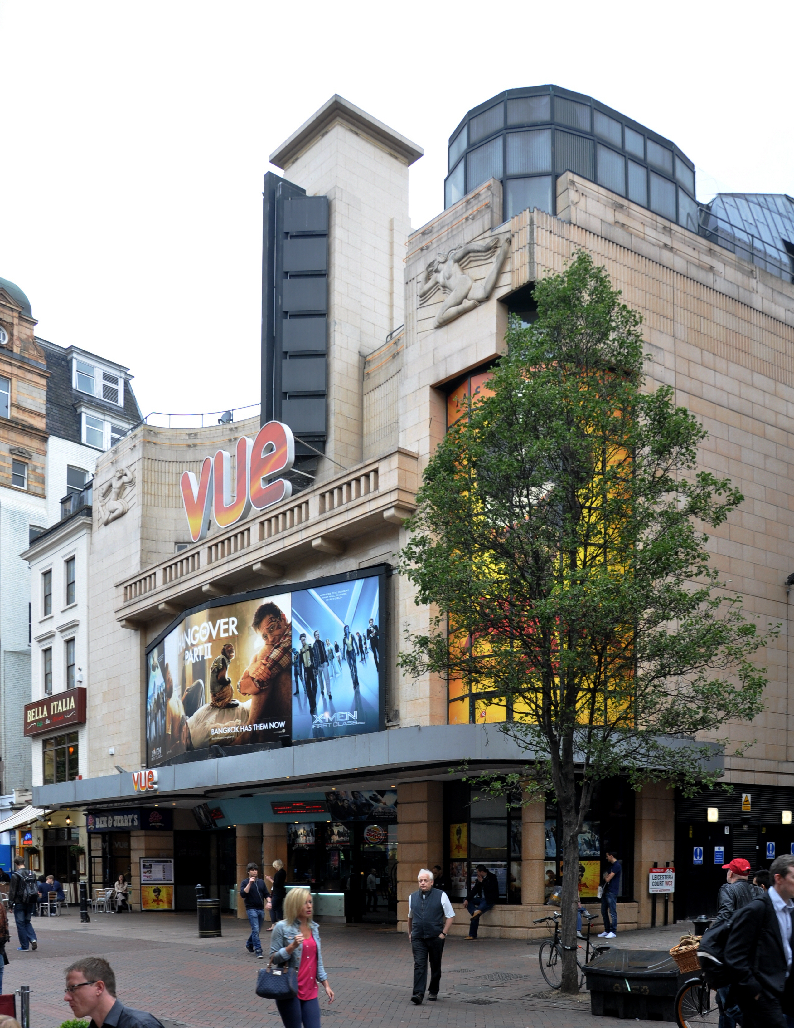 London, Vue cinema, Leicester Square (formerly Warner Brothers Village)